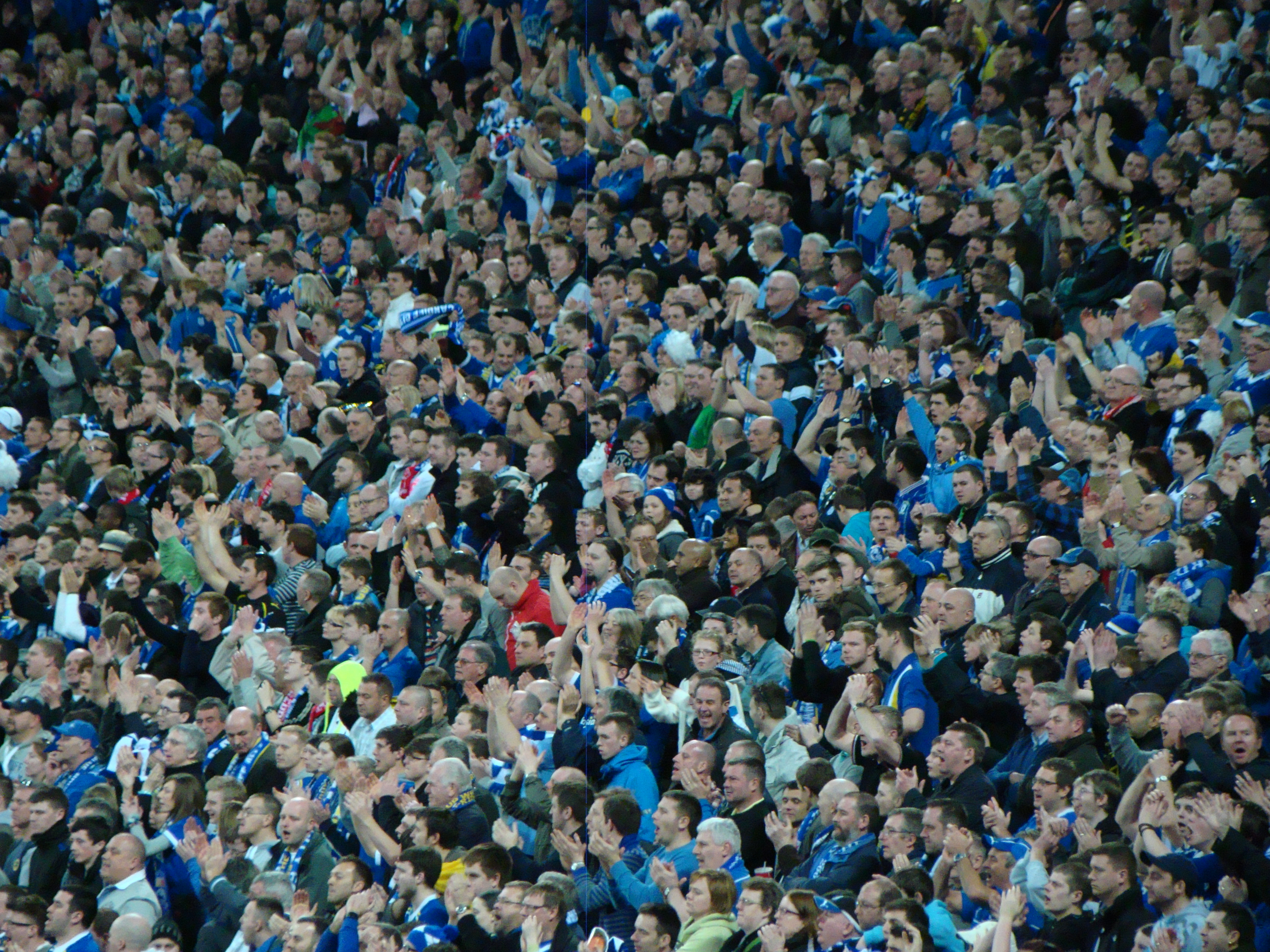 26/02/12 Cardiff V Liverpool, Carling Cup Final, Wembley, London